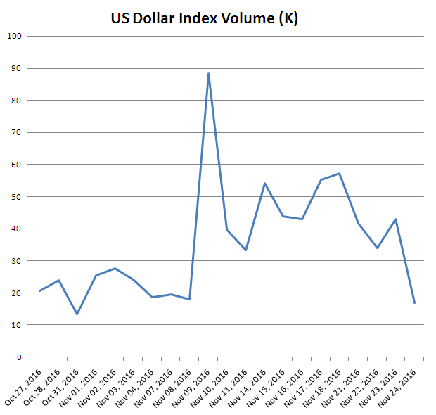 US Election 2016 and dollar demand